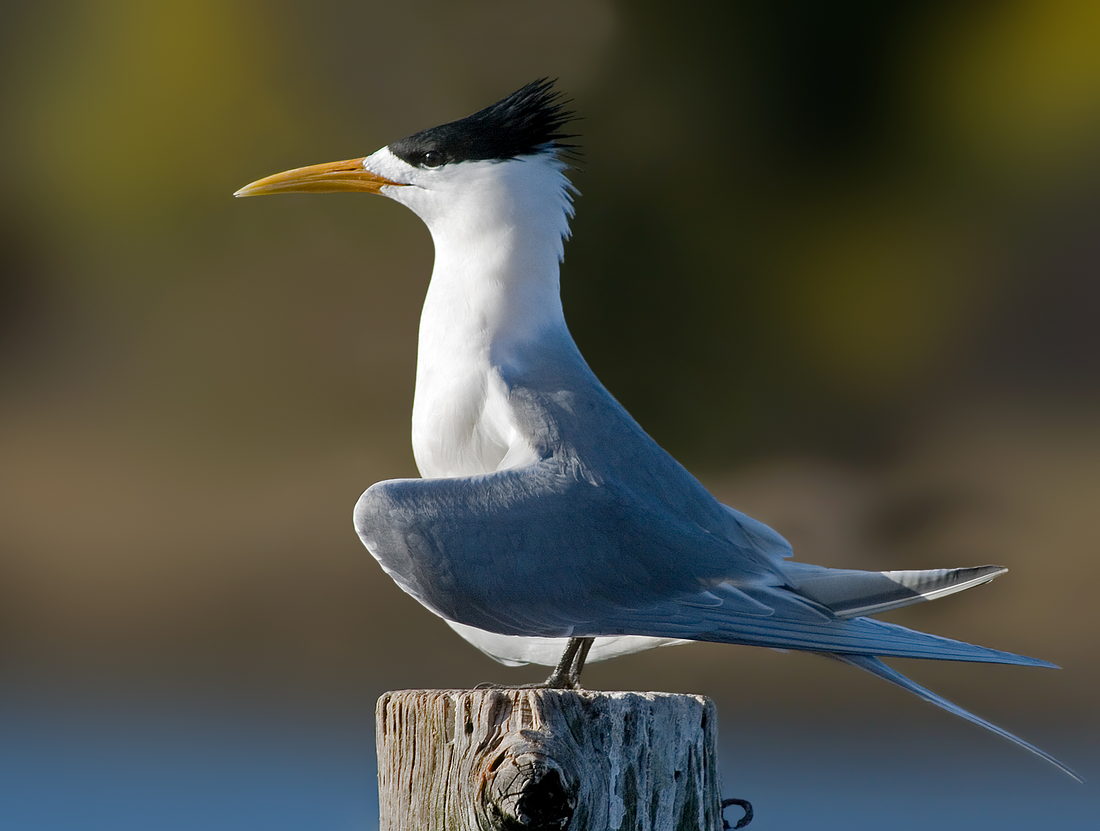 Crested Tern (Thalasseus bergii), in breeding plumage, displaying in Tasmania, Australia Camera data Camera Canon EOS 400D Lens Canon EF 400mm f5.6L w/ 1.4x teleconverter Focal length 560 mm Aperture f/10 Exposure time 1/500 s Sensivity ISO 400